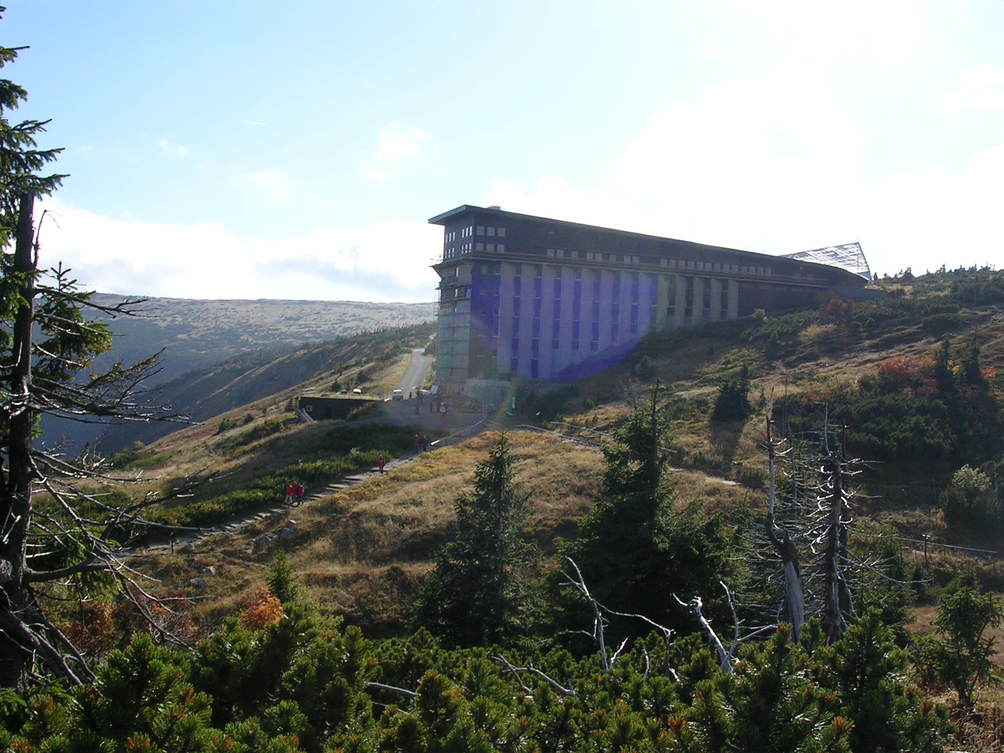 Labská bouda, Krkonoše Mountains, the Czech Republic.